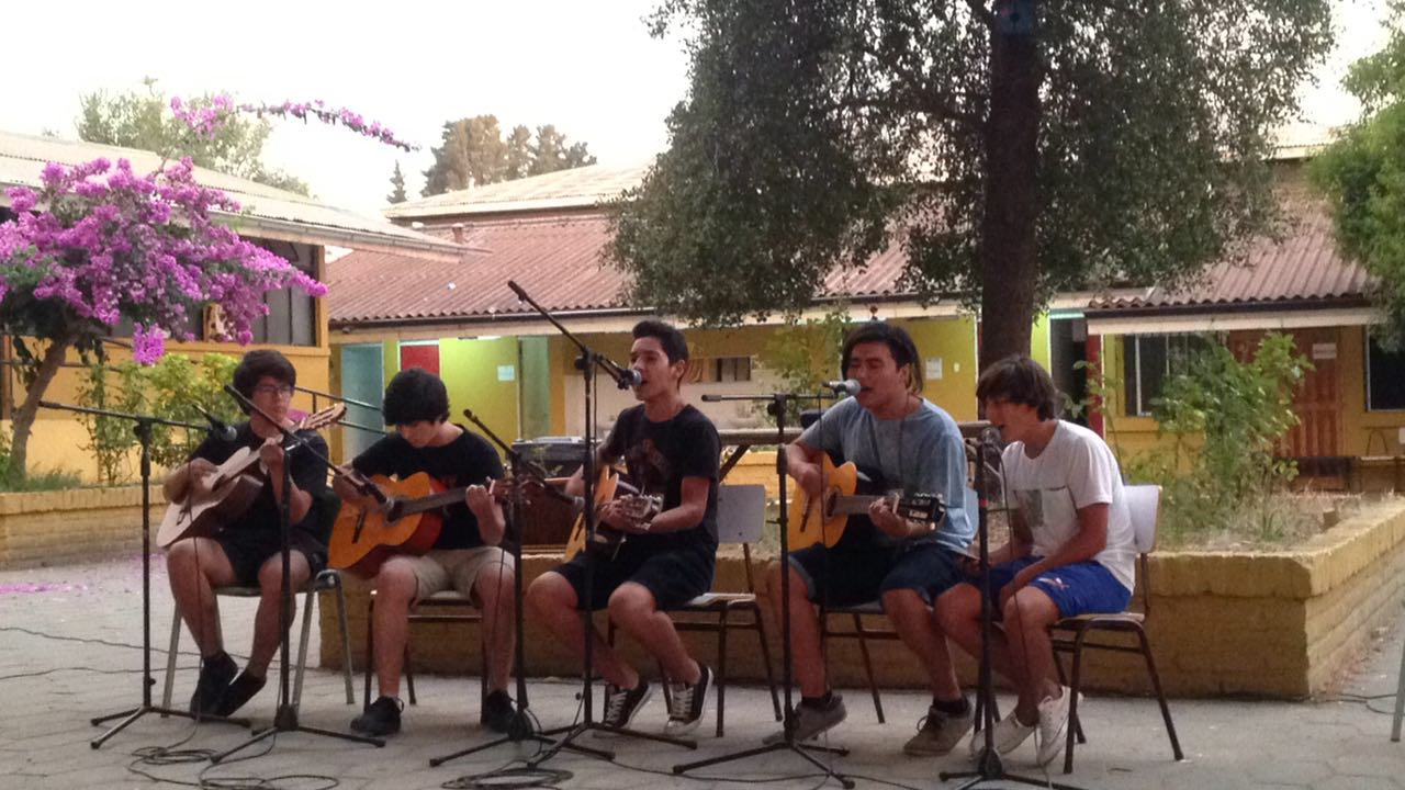 Indecentes, cantando a albergados del Liceo Hualañé.